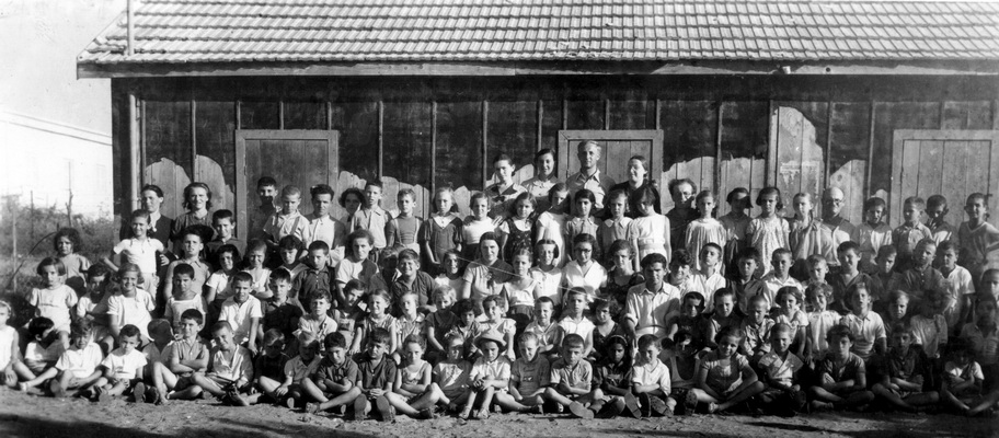 A children's camp organized by the Na'amat organization in July 1938